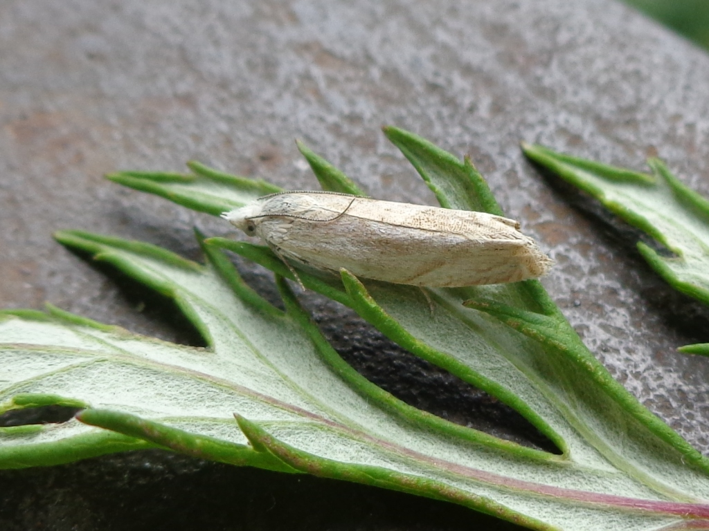 Platytes cerussella. Found in Riga town, Latvia